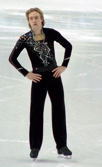 Evgeni Plushenko at the 2005 European Figure Skating Championships